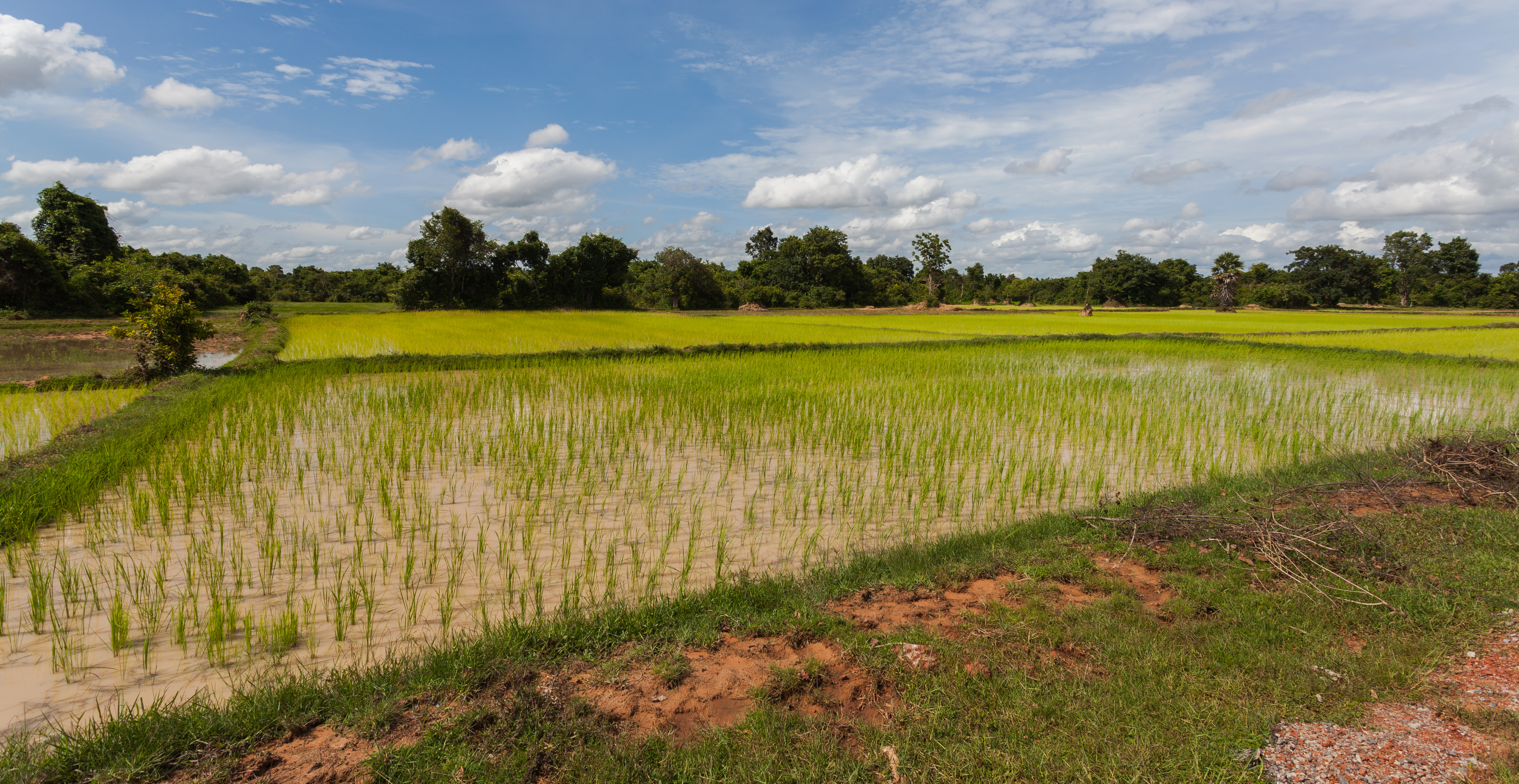 Paddy field, Angkor, Cambodia